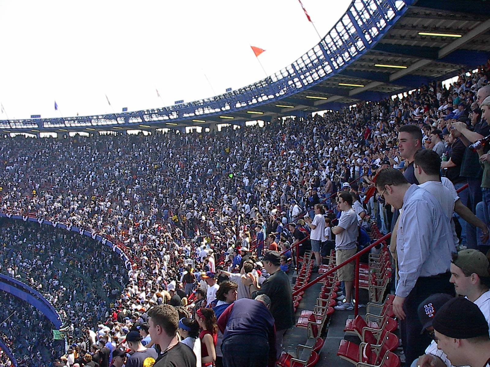 Shea Stadium, New York City. Mets opening day.